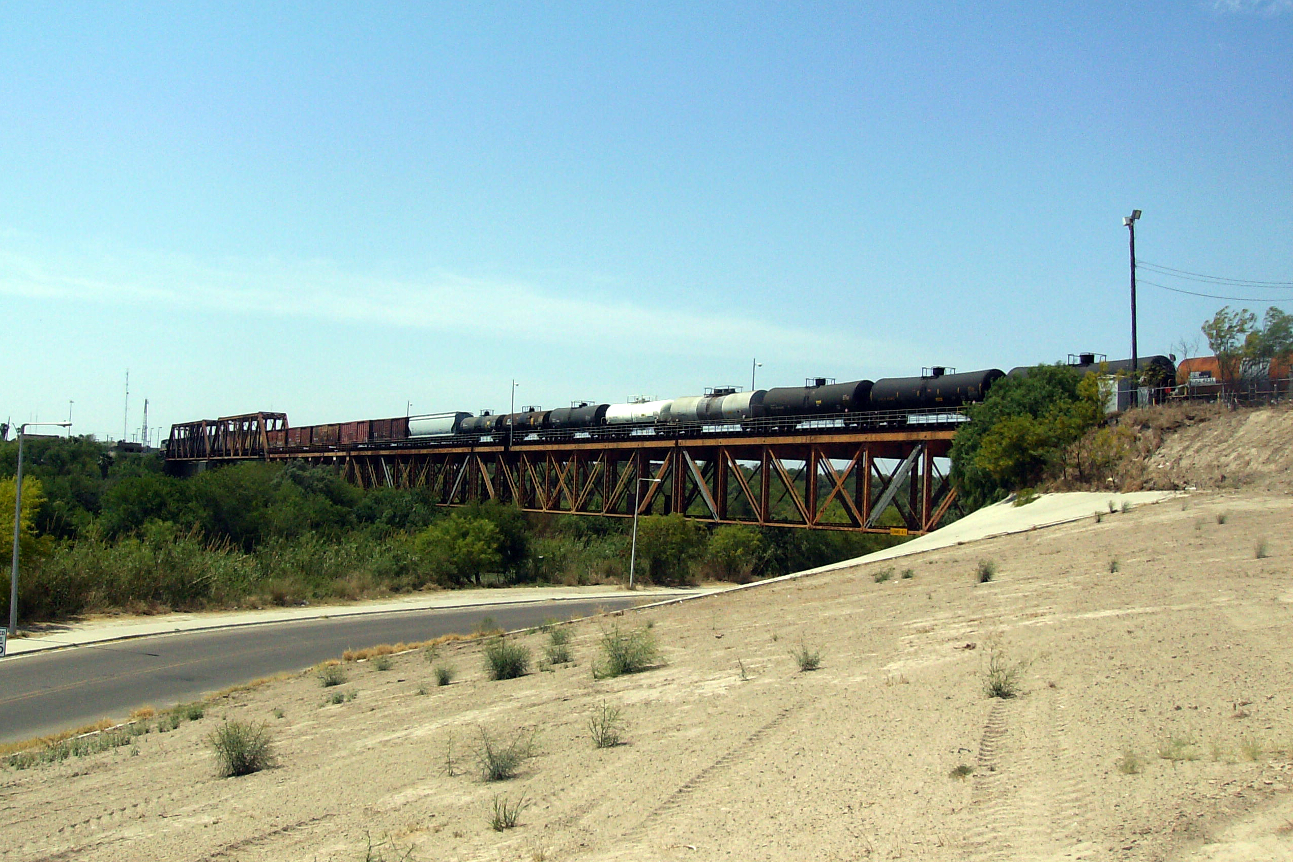 International Railway Bridge Laredo, TX side